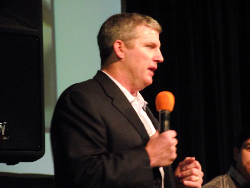 Mike Munchak speaking at Nashville Sportsfest